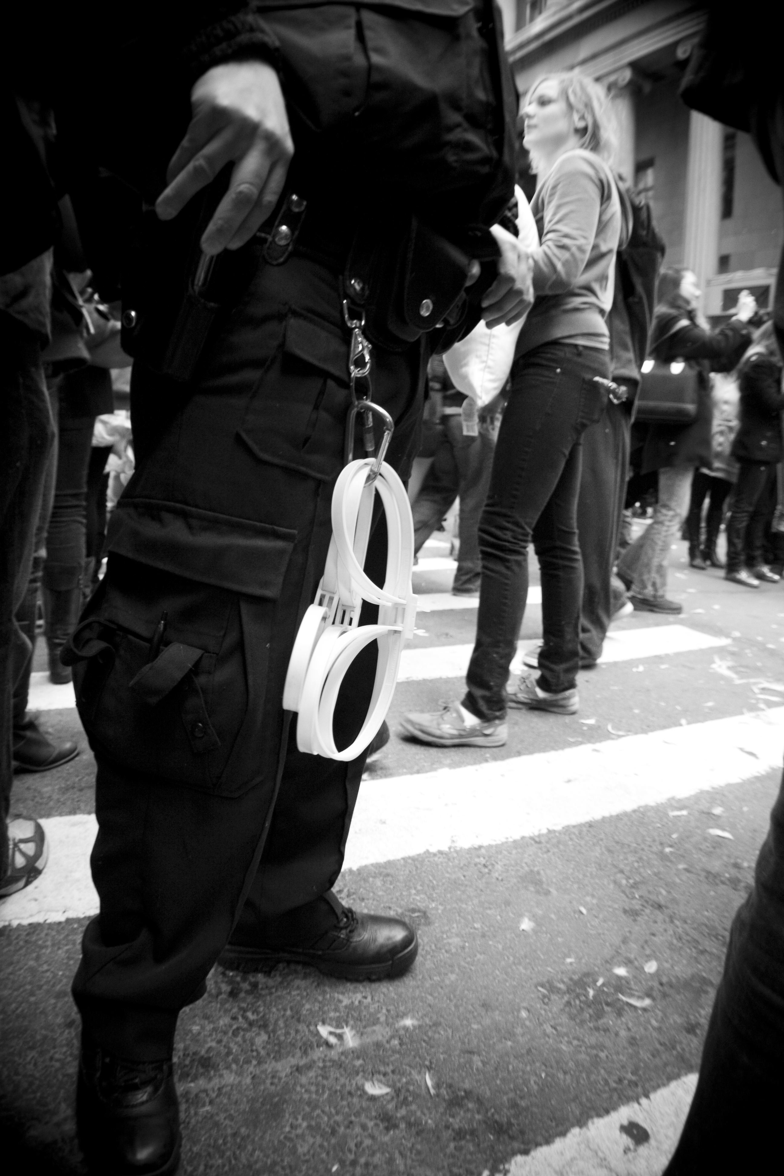 A policeman carrying several pairs of Plasticuffs